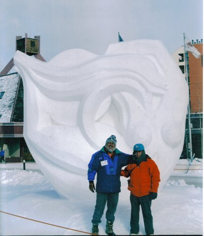 1 Abel Ramírez Águilar with Ramiro Medina with snow sculputure called "Portadora del Sol" at the International Competition of Champions of Snow Sculpture in Breckenridge, Colorado.